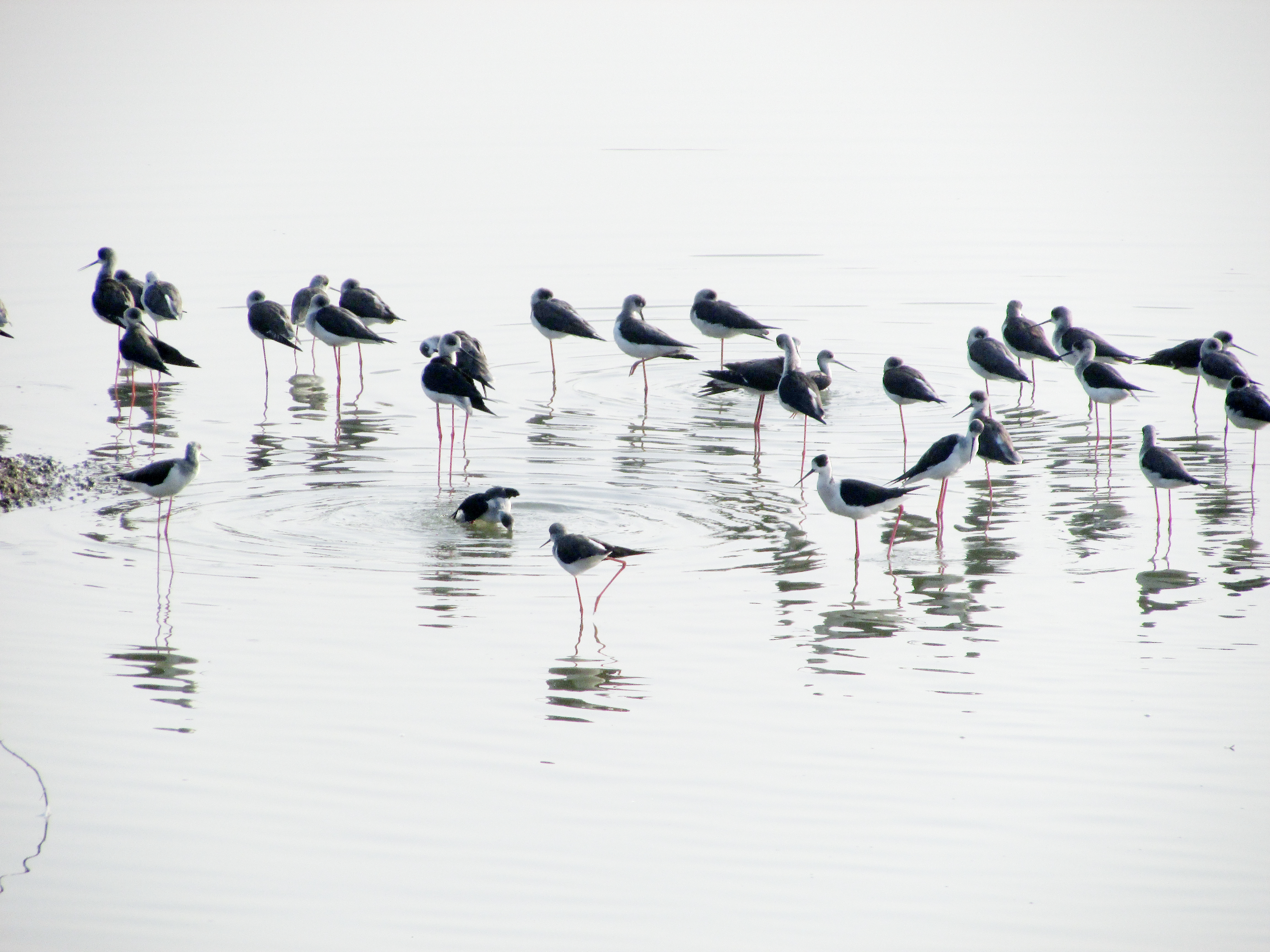 Birds at Park, Indore